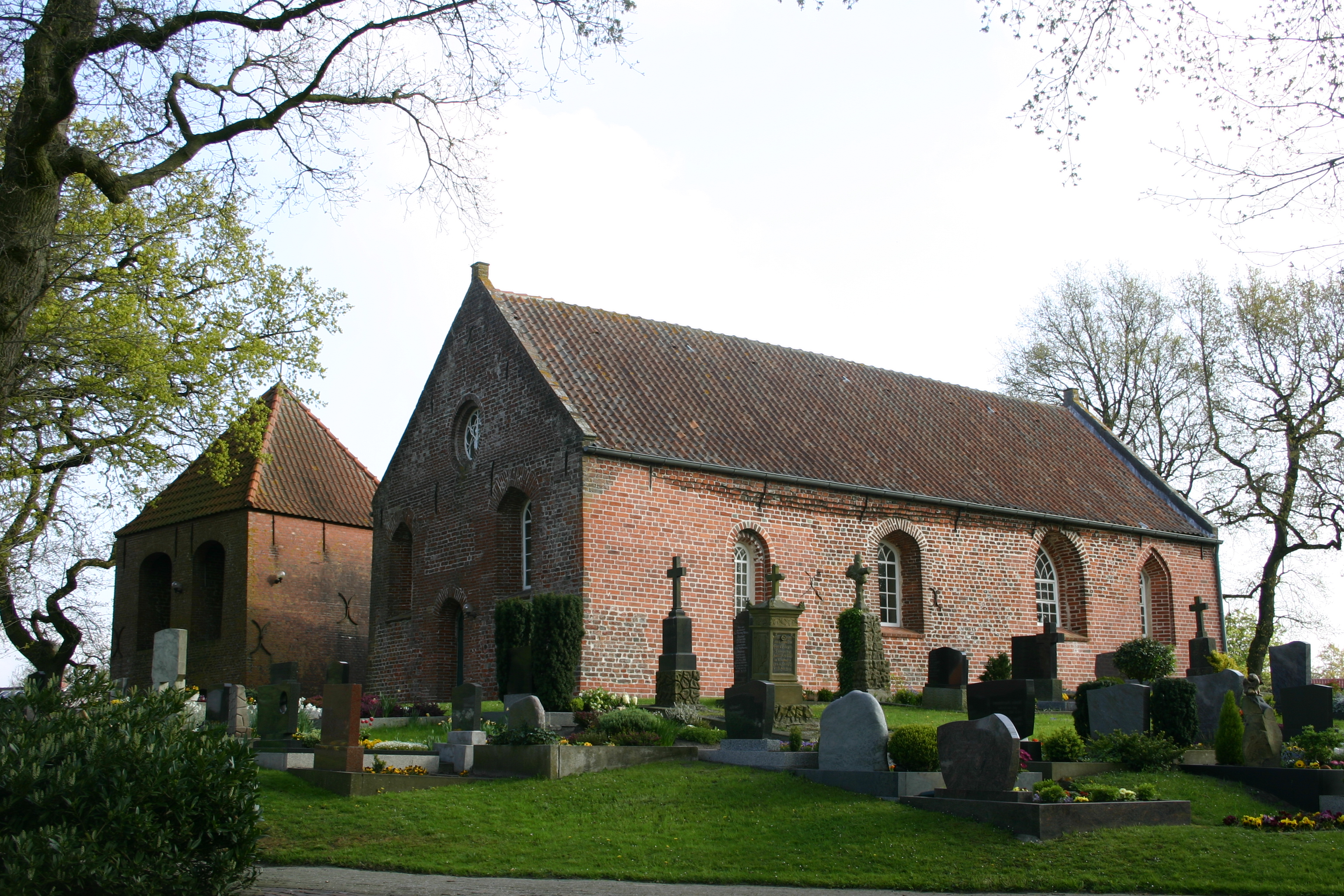 Historic church in ochtelbur, district of Aurich, East Frisia, Germany